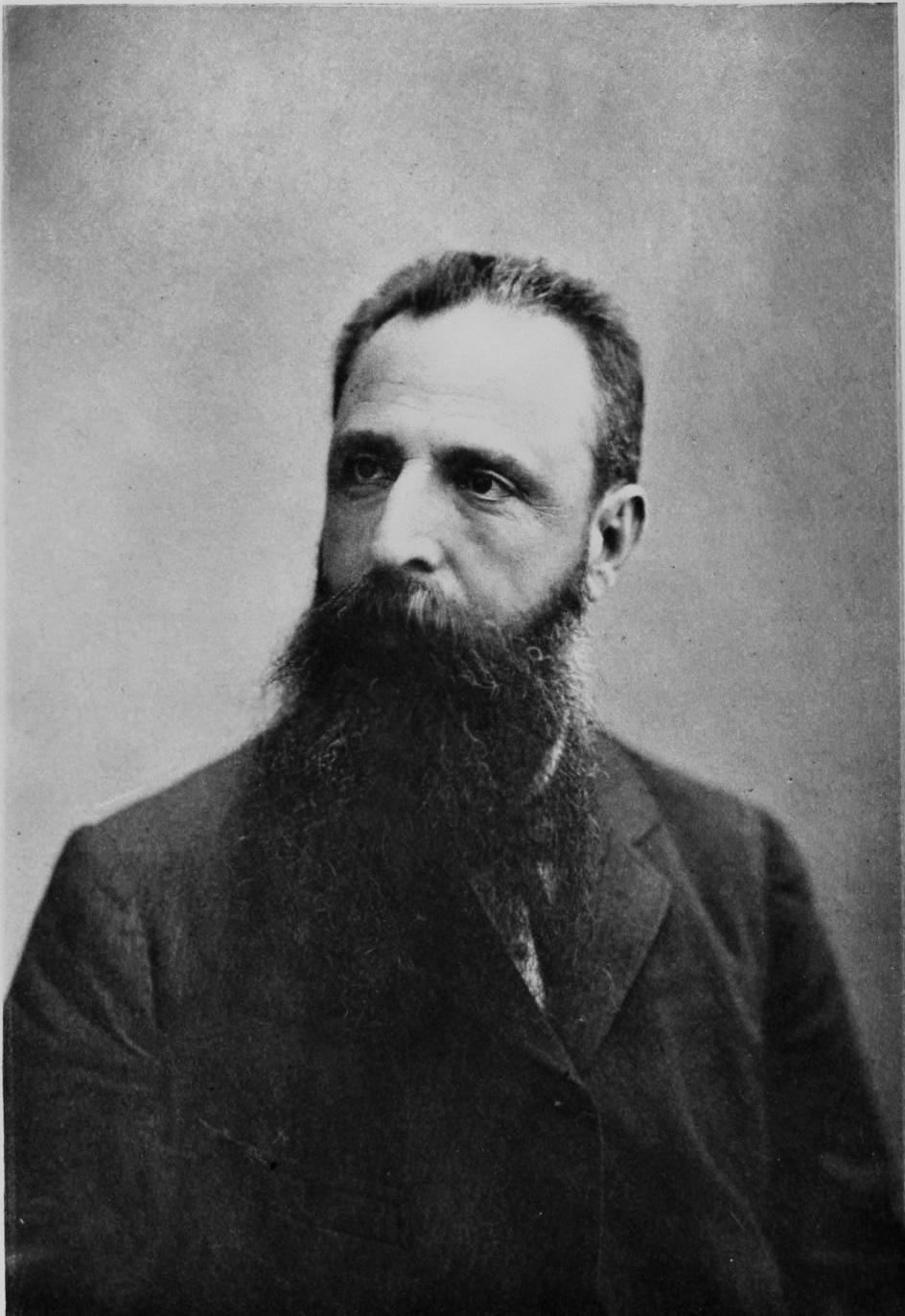 Francesco Durante